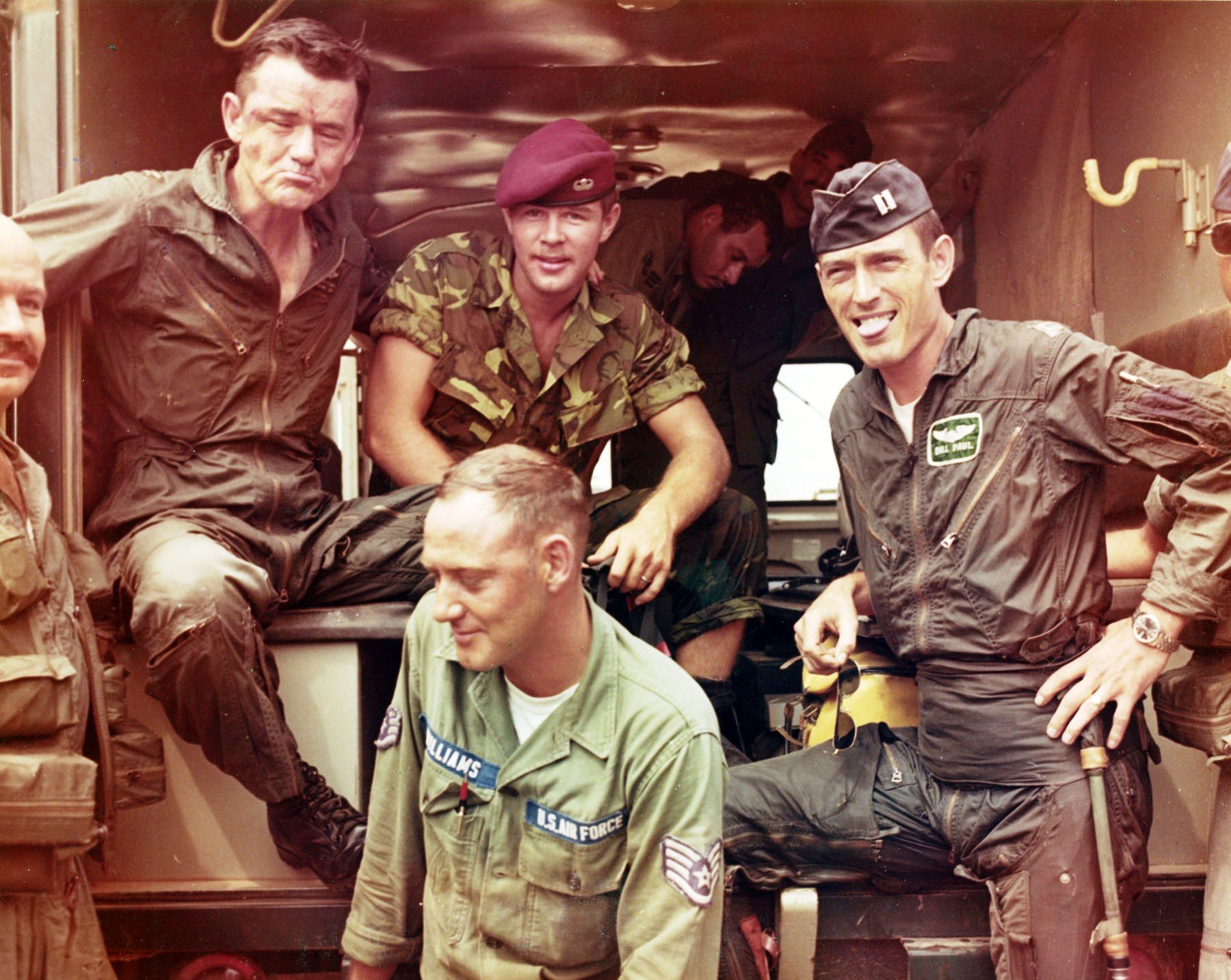 U.S. Air Force Airman first class (A1C) Roger Klenovich, from the 37th Aerospace Rescue and Recovery Squadron, Vietnam, wearing his maroon Pararescuemen beret - circa 1967 Image caption: Col. (later Maj. Gen.) Robert Maloy (left) and Capt. William S. Paul (right) of the 366th Tactical Fighter Wing after being rescued by an H-3E Jolly Green Giant from the 37th Aerospace Rescue and Recovery Squadron on Oct. 15, 1967. Enemy fire hit their F-4 Phantom over North Vietnam, but they reached open water before ejecting. Maloy fractured his back, and Pararescueman (PJ) Airman 1st Class Roger Klenovich (center, wearing red PJ beret) went into the water to help him.